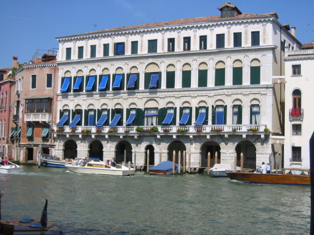 Grand Canal Venise 1; Ca' Moro-Lin